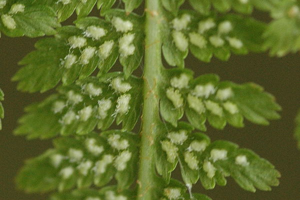 Picture taken in Commanster, Belgian High Ardennes . Species: Athyrium filix-femina